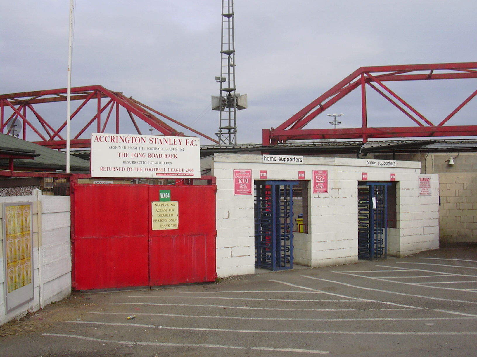 Turnstiles at Accrington Stanley Football Club, Fraser Eagle Stadium, Livingstone Road, Accrington, Lancashire BB5 5BX